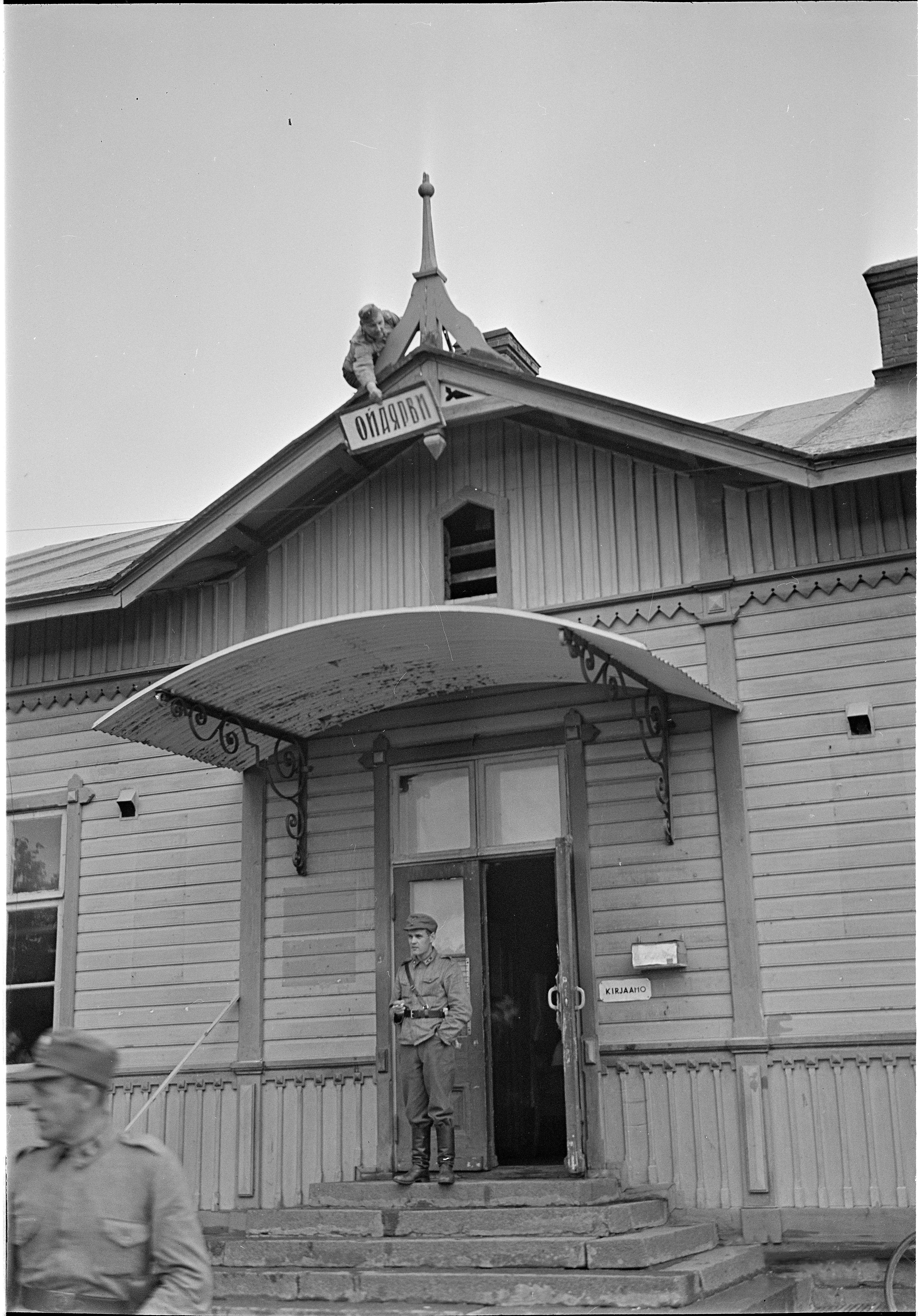 Ryssnkielinen asemakilpi poistetaan.